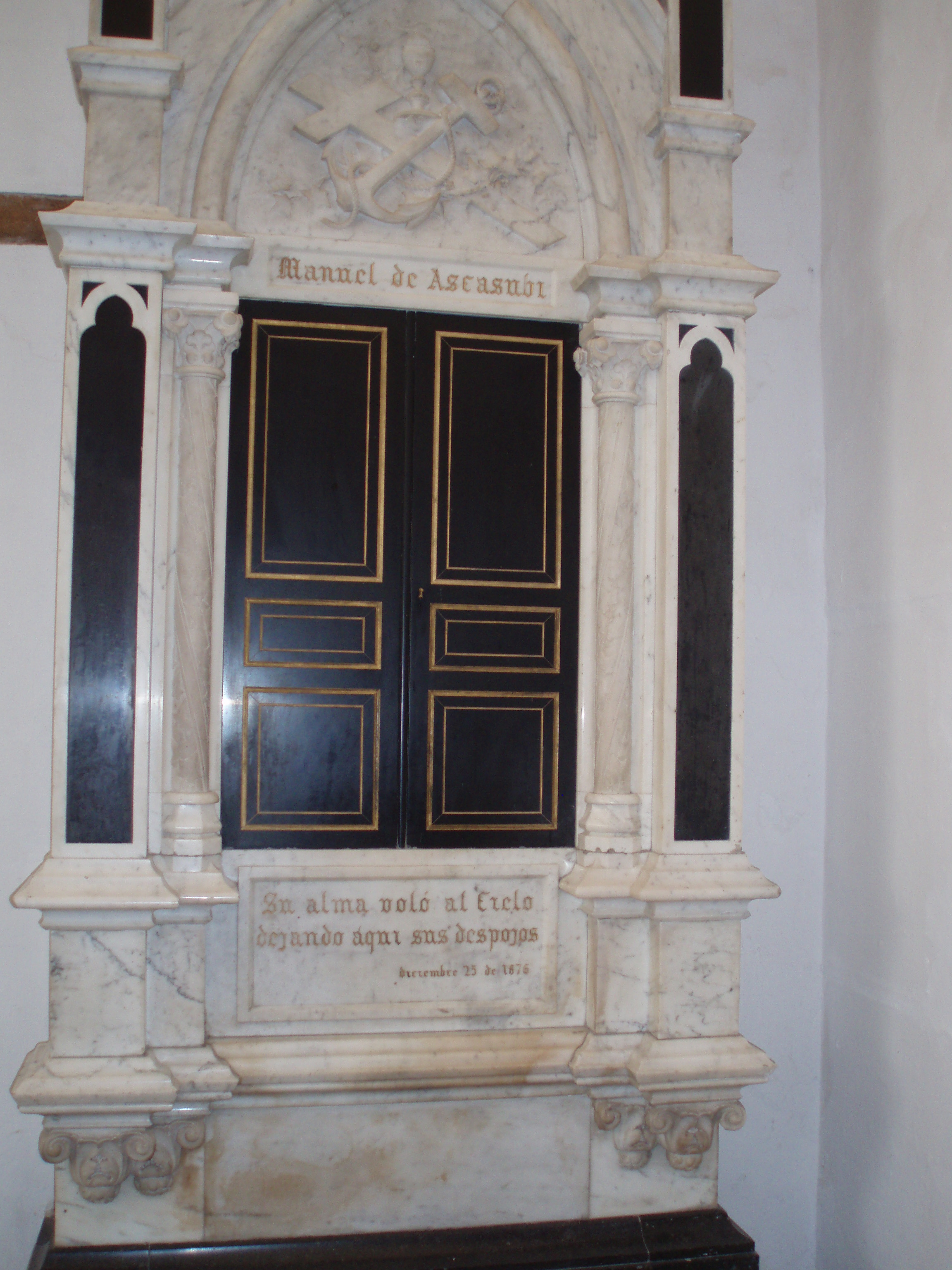 Manuel de Ascasubi's Tomb Stone in Quito